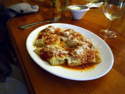 Gozo Restaurant Ravjul filled with ricotta and topped with Grated GnejNA